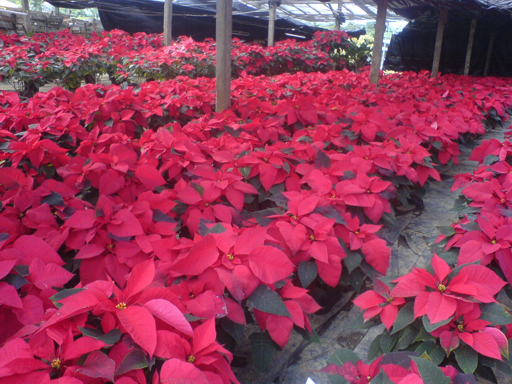 Poinsettia grown in Impasug-ong, Bukidnon